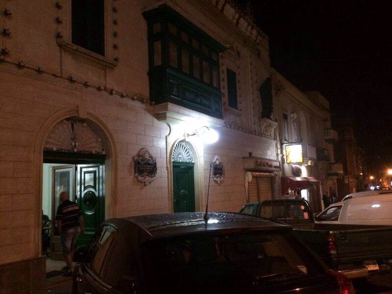 St. Sebastian Band Club, Socjeta Filarmonika Pinto, in Qormi, Malta.